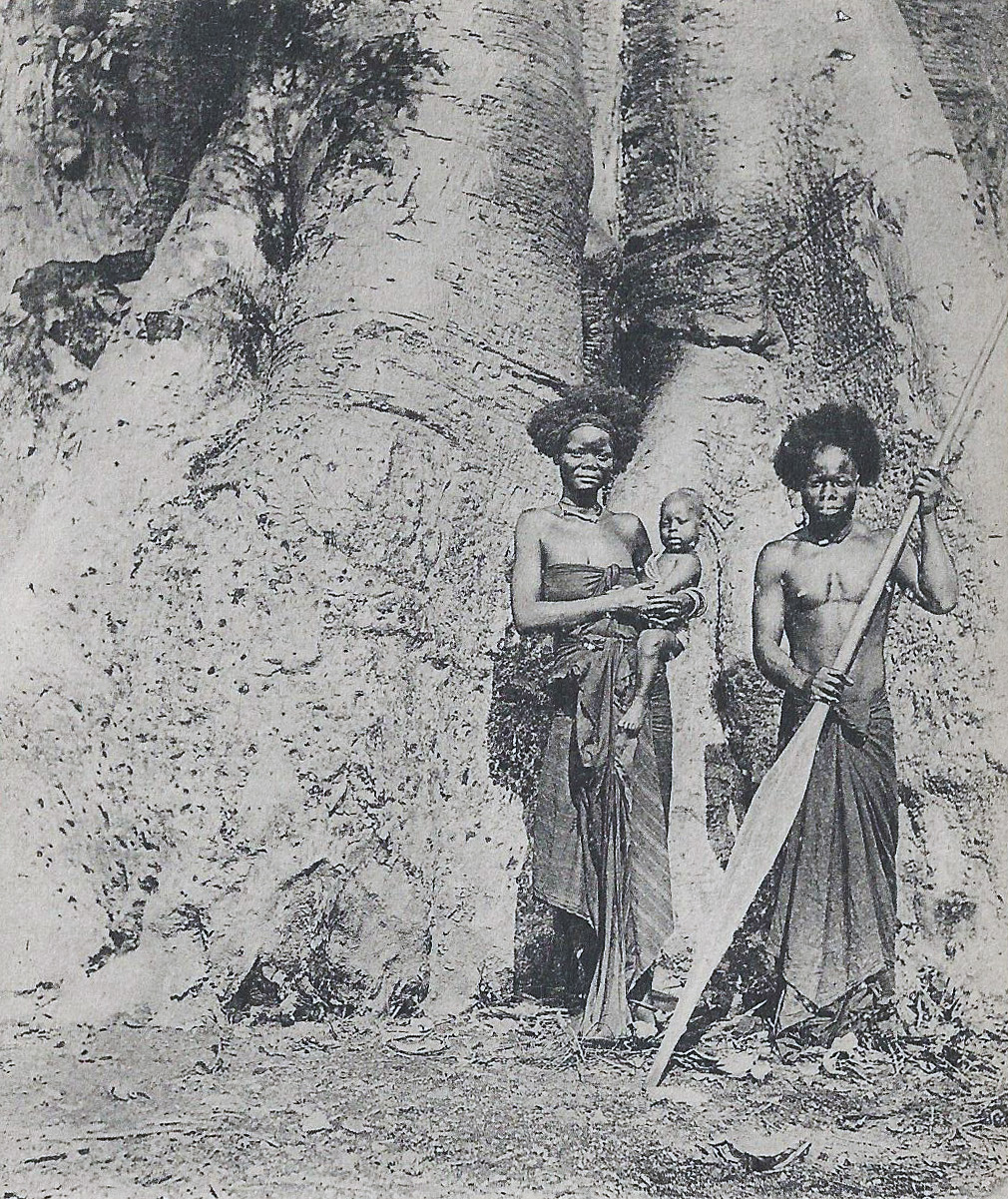 Batéké couple, Congo. Postcard Nels out of series, numbered, pioneer card, 1898. Image centered on the picture only.